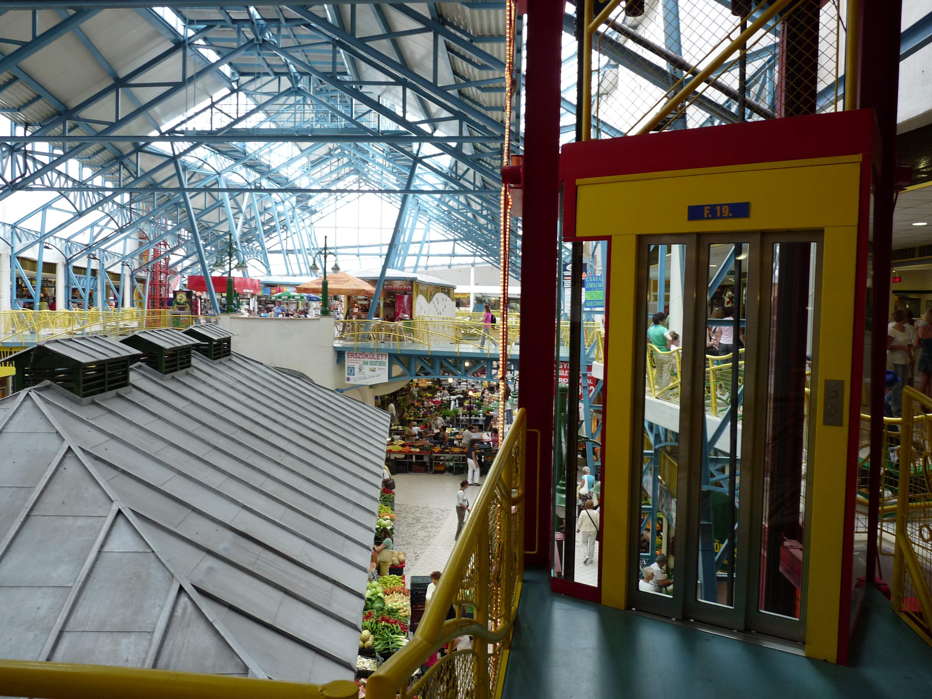 first floor of the Lehel Csarnok